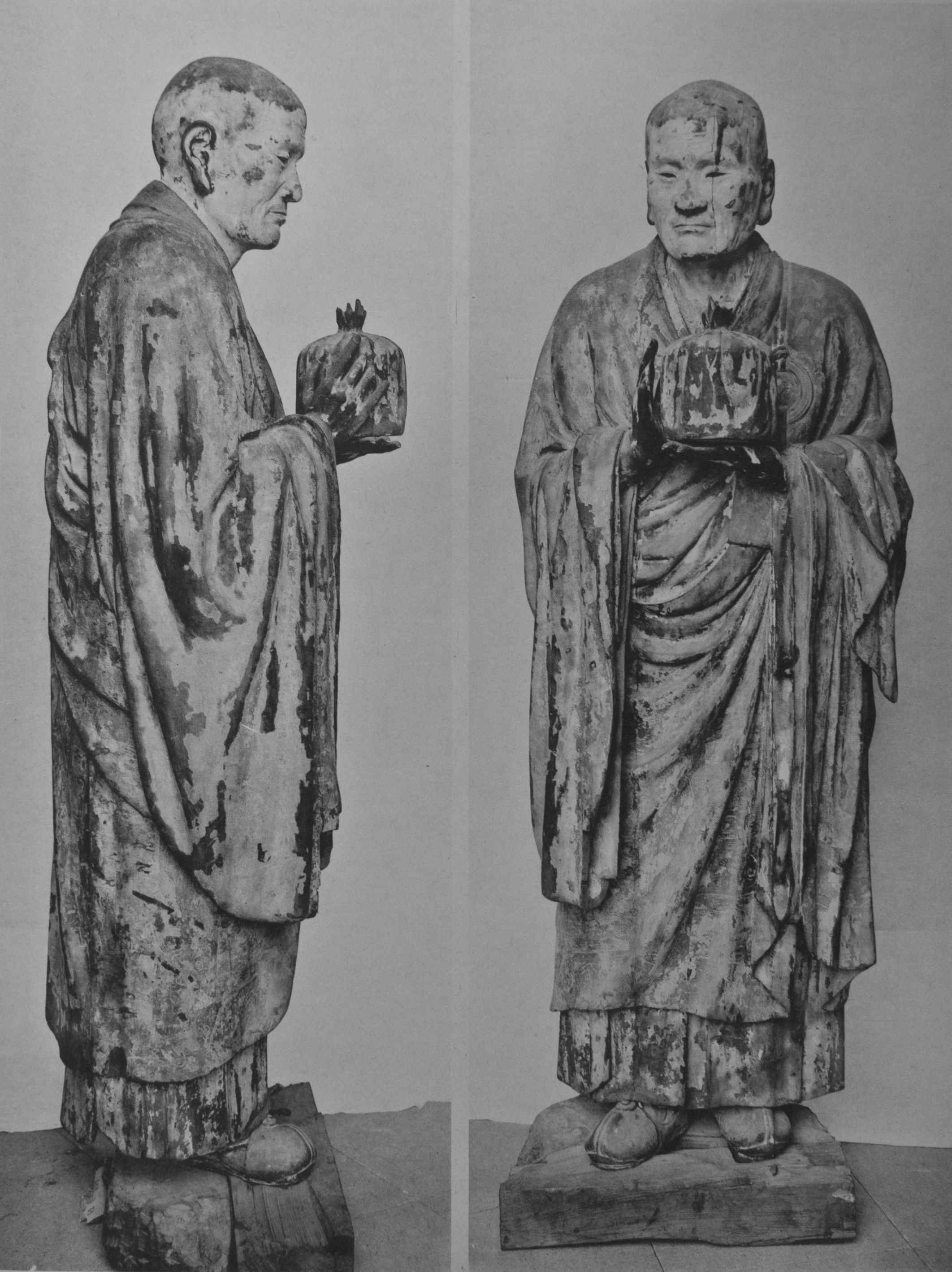 Kofukuji, Nara, Japan